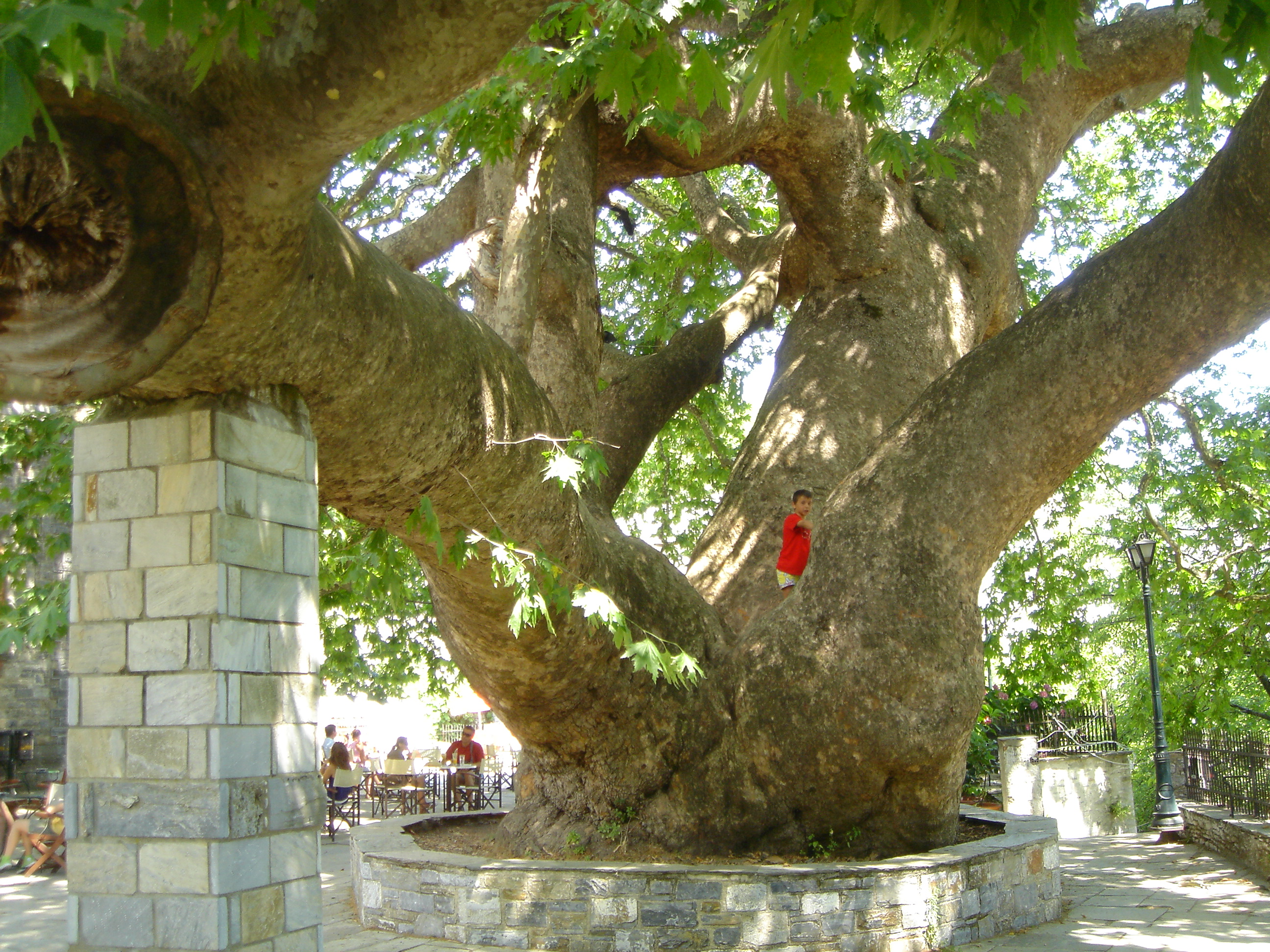 Platanus tree in Tsangarada, Pilion, Greece. The age is said to be over 1000 years. Circumference of the base is 14 meters.